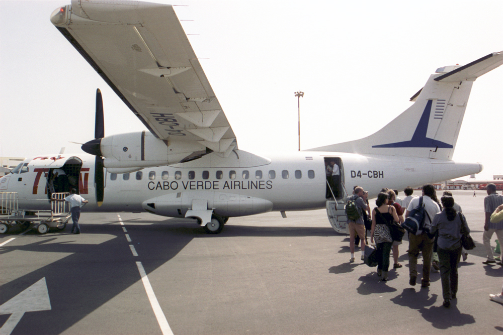 ATR-42 (D4-CBH) aircraft in service in Cape Verde (for TACV airline). Photo taken in Sal island.